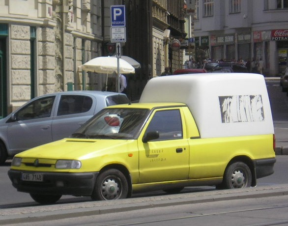 Škoda Pickup seen in Prague